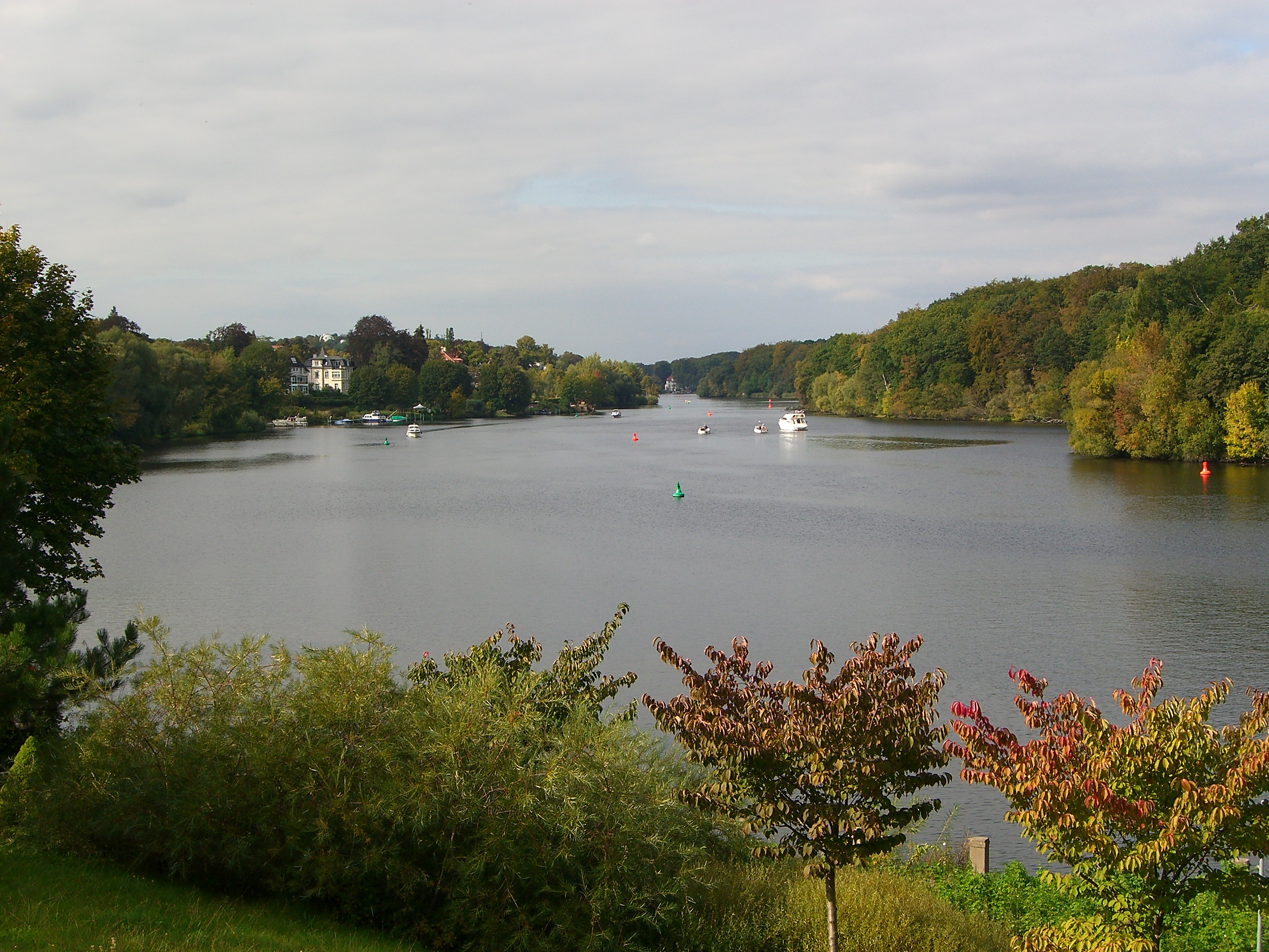 Griebnitzsee close to Potsdam.